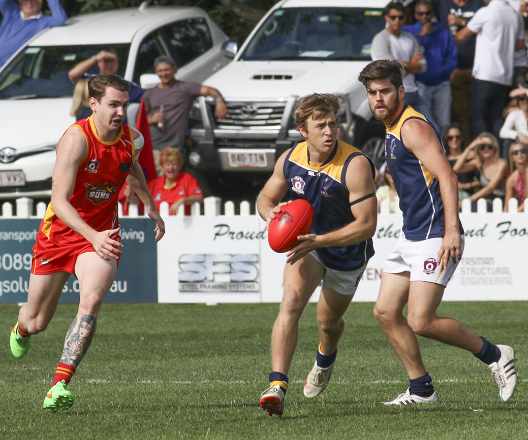 Australian rules footballer chases opponent